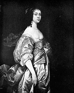 Mary Lucas, Margaret Cavendish's older sister. In the public domain by age